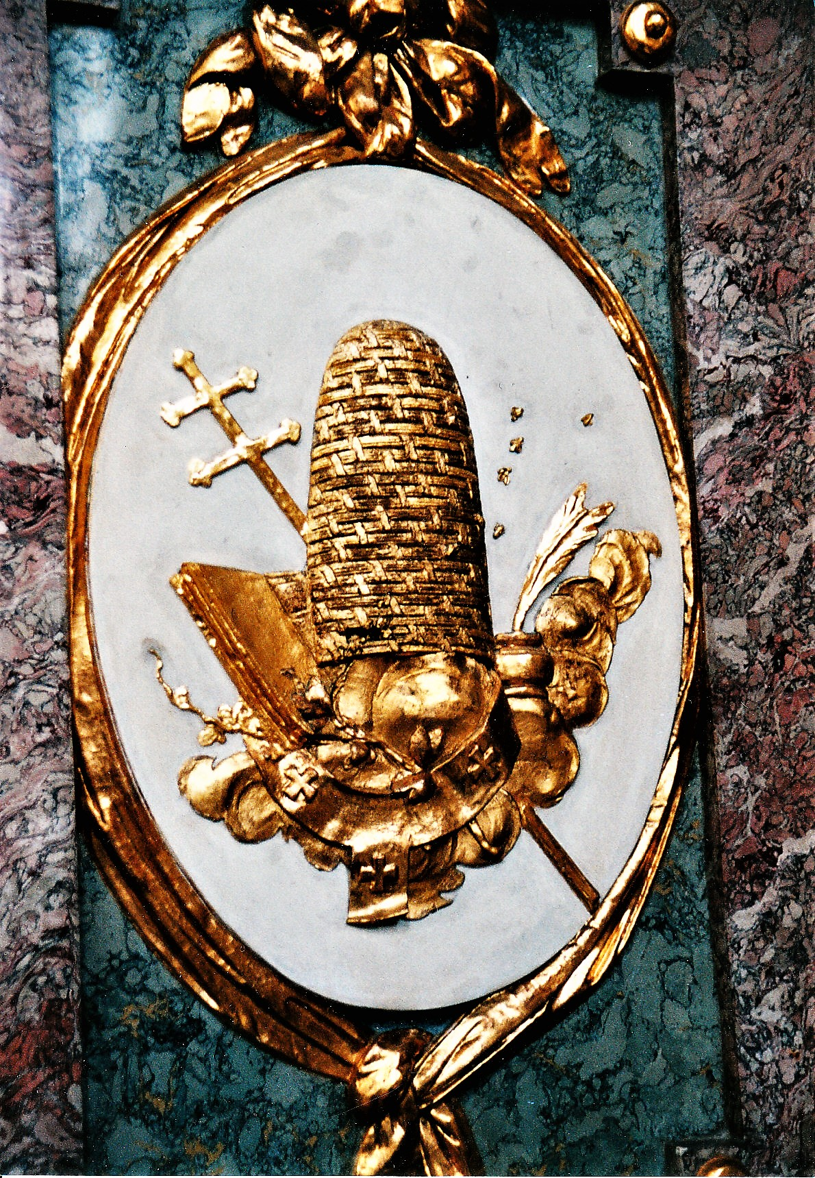 St. Verena (Rot an der Rot) - Four Latin Fathers of the Church: St. Ambrose of Milan (Symbol) by Franz Xaver Feichtmayr II. (1786)